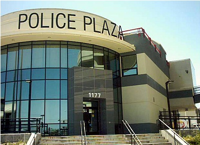 Police Plaza, at 1177 Huntington Drive, San Bruno. This building is adjacent to the San Bruno station of the Bay Area Rapid Transit system.